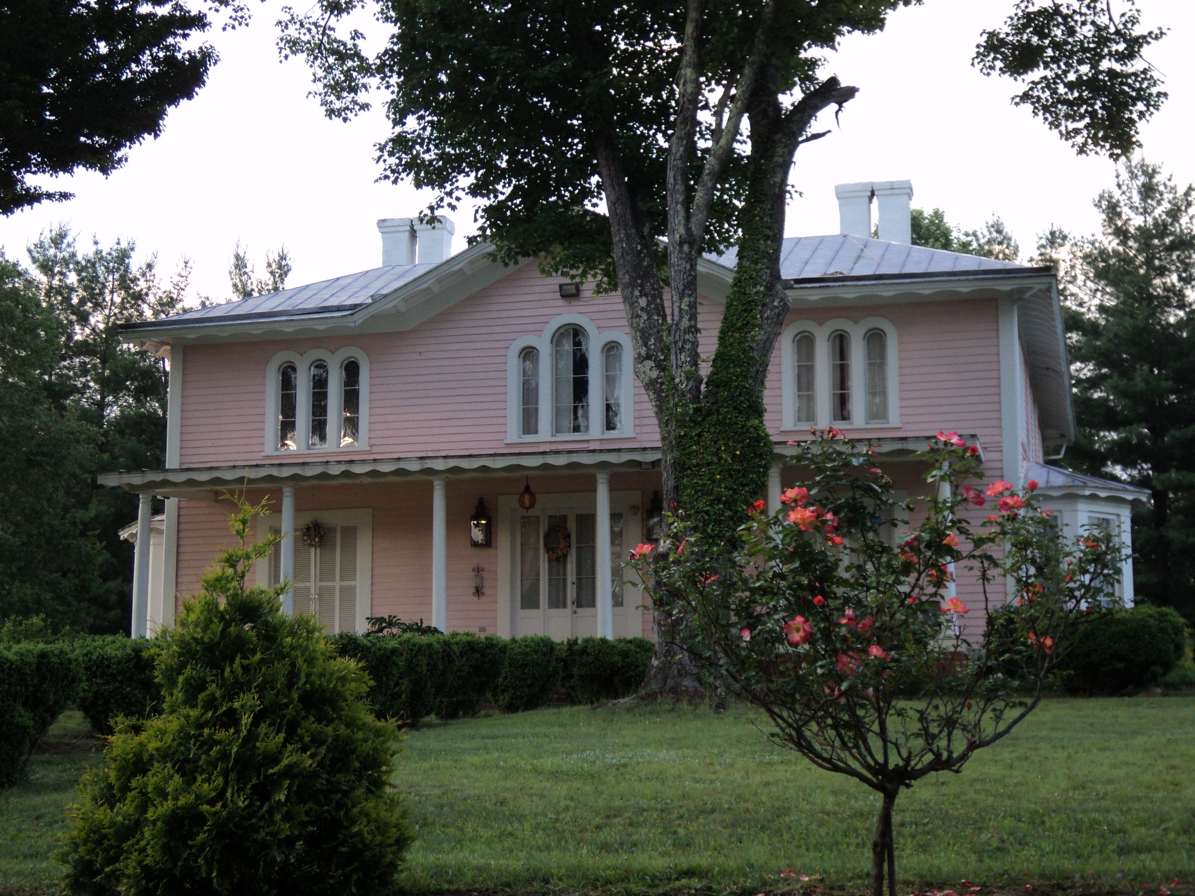 View of the exterior of "Aurora," a house built by Thomas Jefferson Penn in 1853, at Penn's Store, Patrick County, Virginia, named for his ancestors. The house is today listed on the National Register of Historic Places. [1]